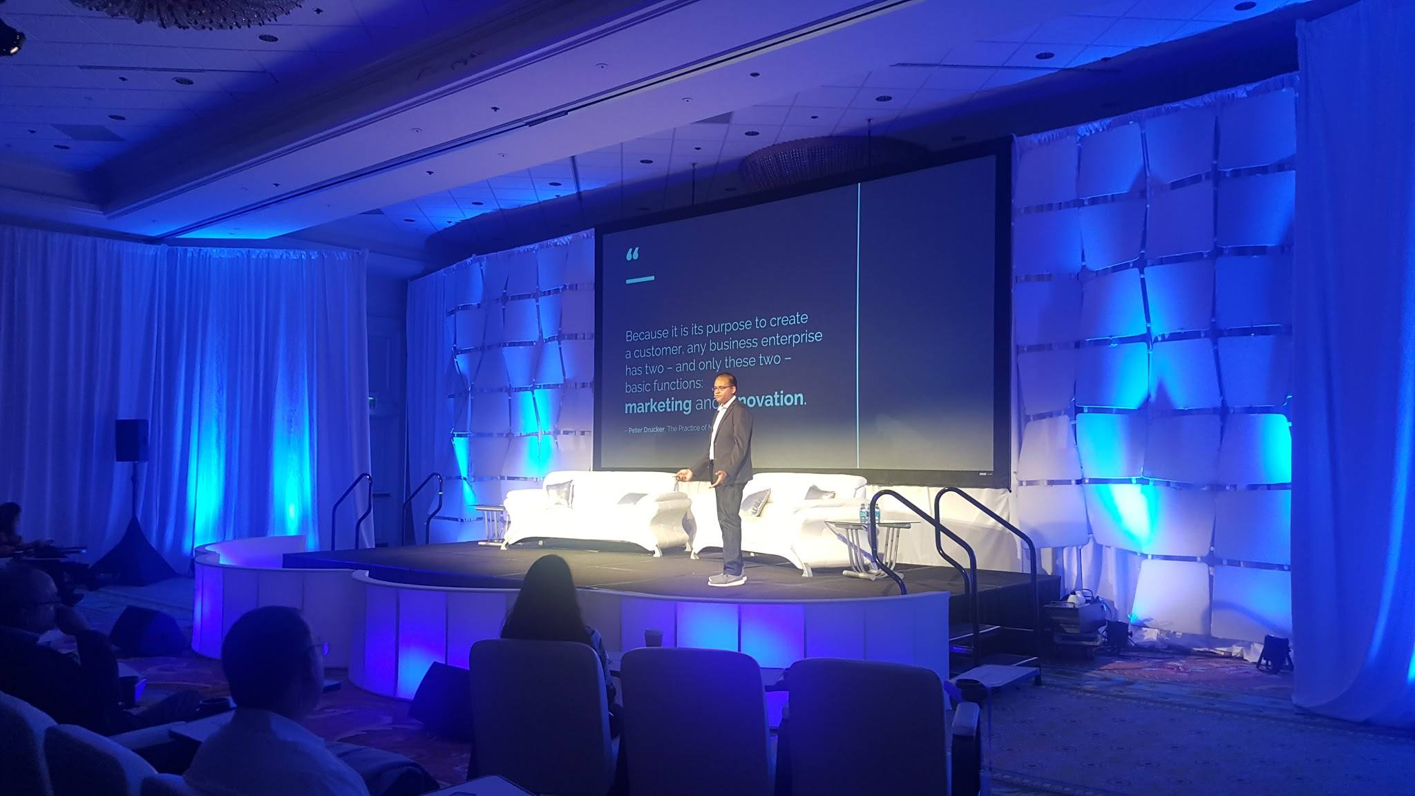 Sajid Sadi, Vice President of Research, Head - Think Tank Team at Samsung